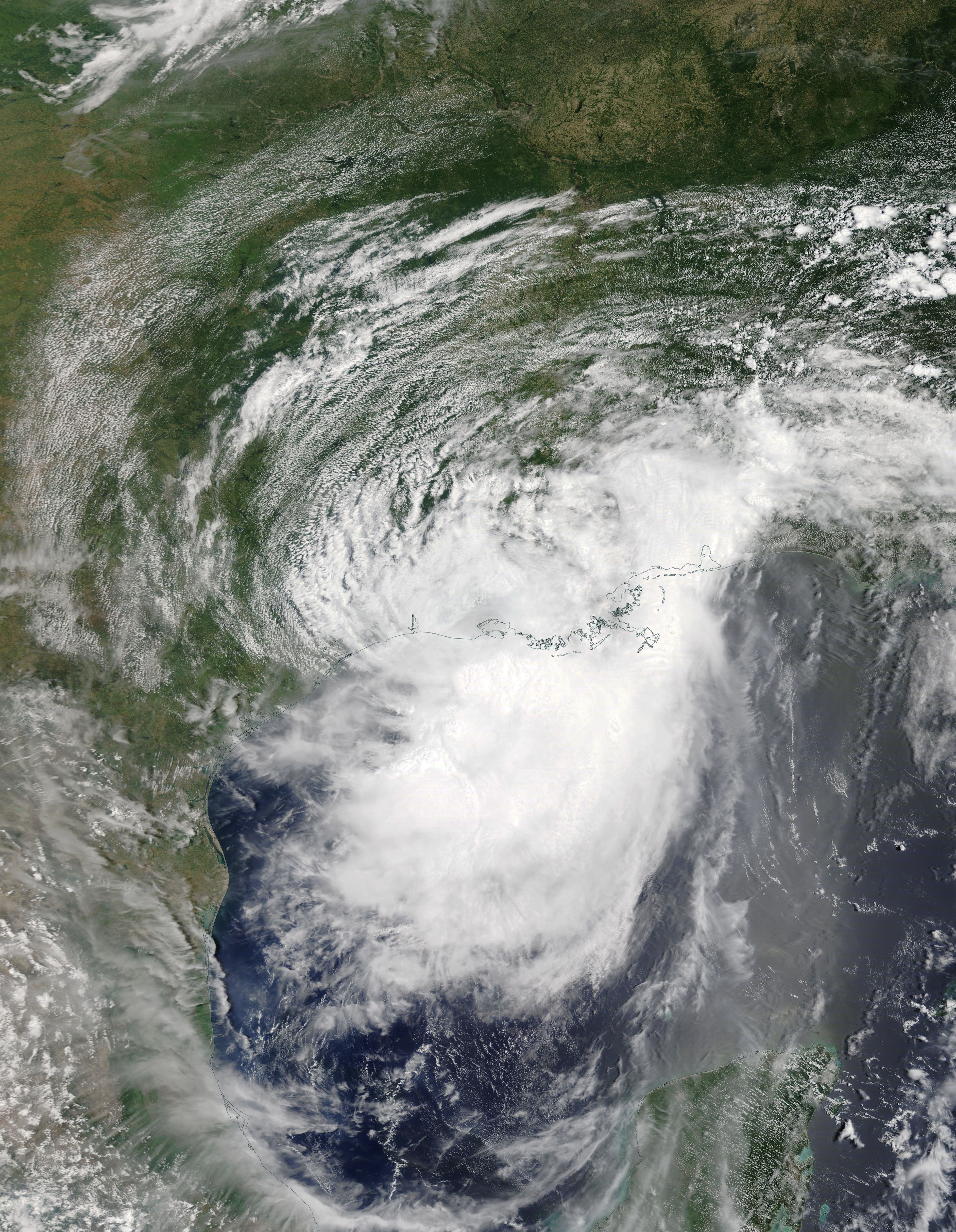 Hurricane Barry at peak intensity shortly after making landfall on Marsh Island, Louisiana, on July 13, 2019